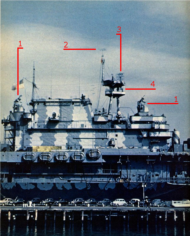 The instalation on the bridge of USS Hornet CV-8 in March 1942. For description see below.